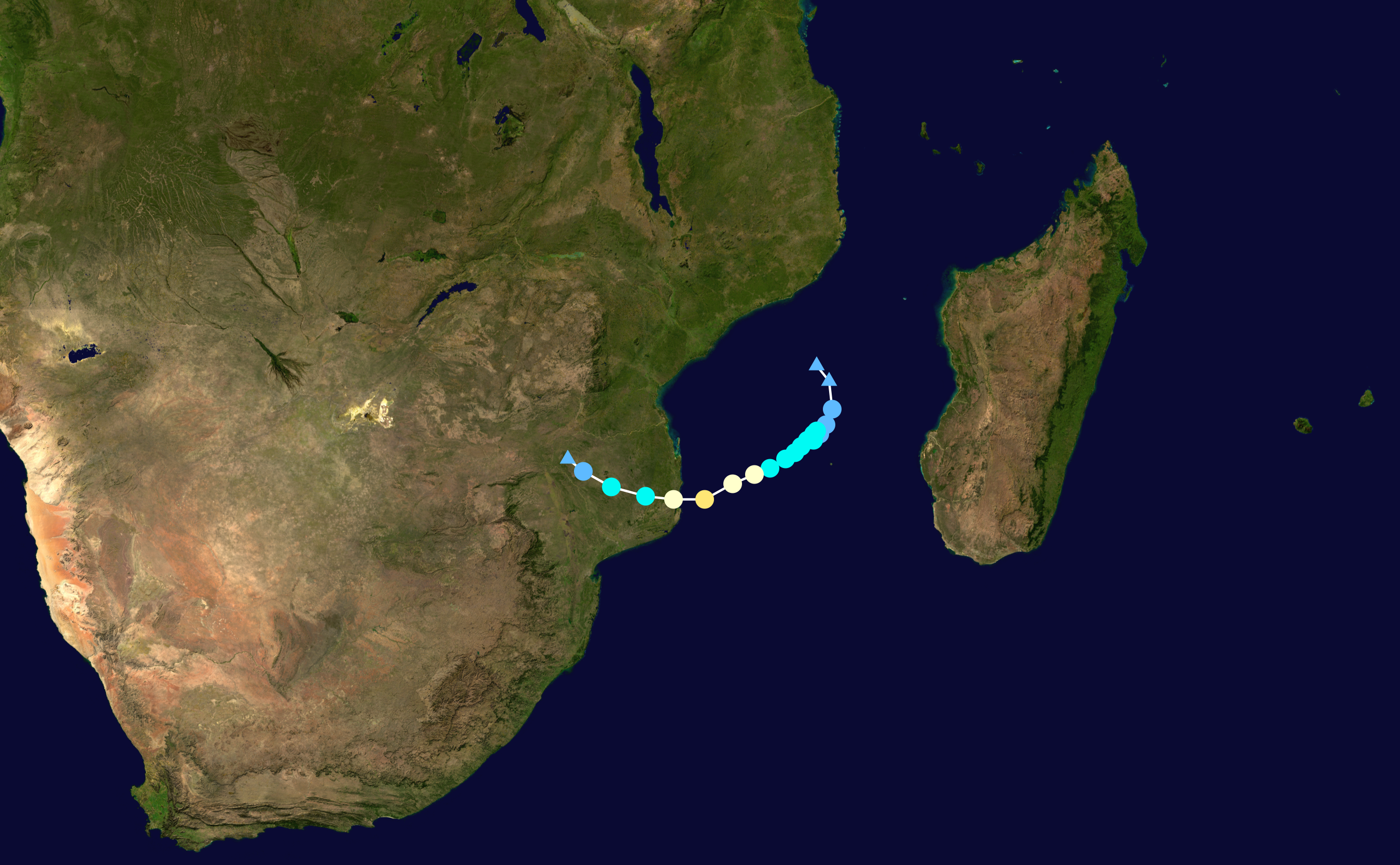 Track map of Tropical Cyclone Dineo of the 2016-17 South-West Indian Ocean cyclone season. The points show the location of the storm at 6-hour intervals. The colour represents the storm's maximum sustained wind speeds as classified in the Saffir–Simpson scale (see below), and the shape of the data points represent the nature of the storm, according to the legend below. Saffir–Simpson scale Tropical depression≤38 mph≤62 km/h Category 3111–129 mph178–208 km/h Tropical storm39–73 mph63–118 km/h Category 4130–156 mph209–251 km/h Category 174–95 mph119–153 km/h Category 5≥157 mph≥252 km/h Category 296–110 mph154–177 km/h Unknown Storm type Tropical cyclone Subtropical cyclone Extratropical cyclone / Remnant low / Tropical disturbance / Monsoon depression